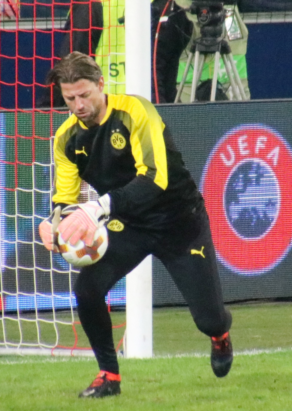 Europa League Achtelfinale Rückspiel 15. März 2018